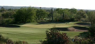 Desert Forest Golf Club.